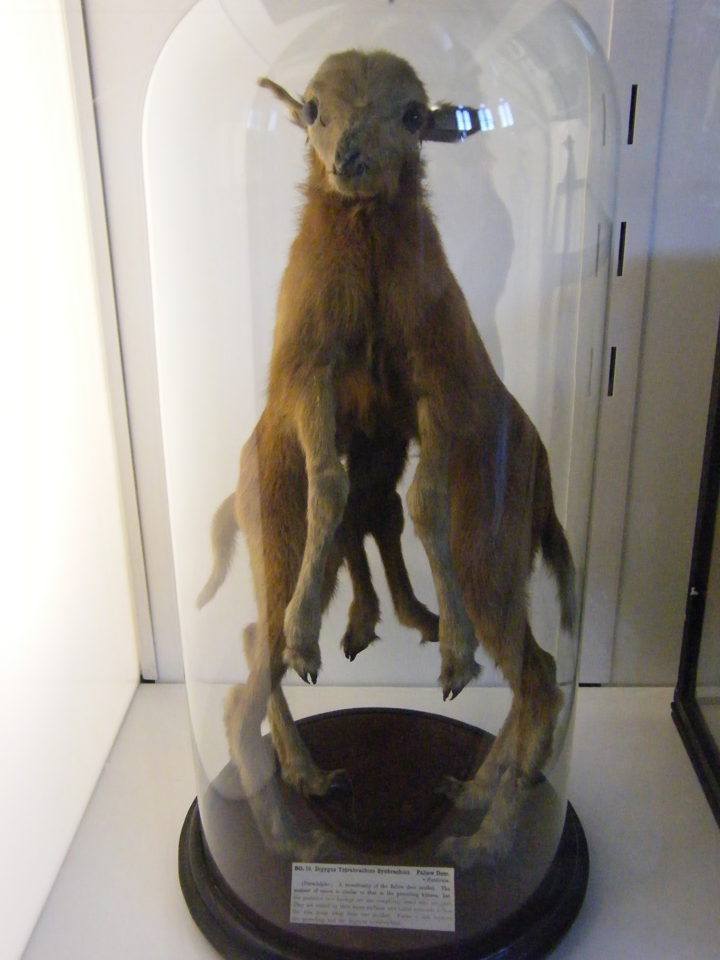 Fallow deer (siamese twins) This photo was taken as part of Britain Loves Wikipedia in February 2010 by Dave Russ.